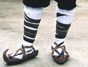 Le Ciocie, traditionel shoes in central Italy